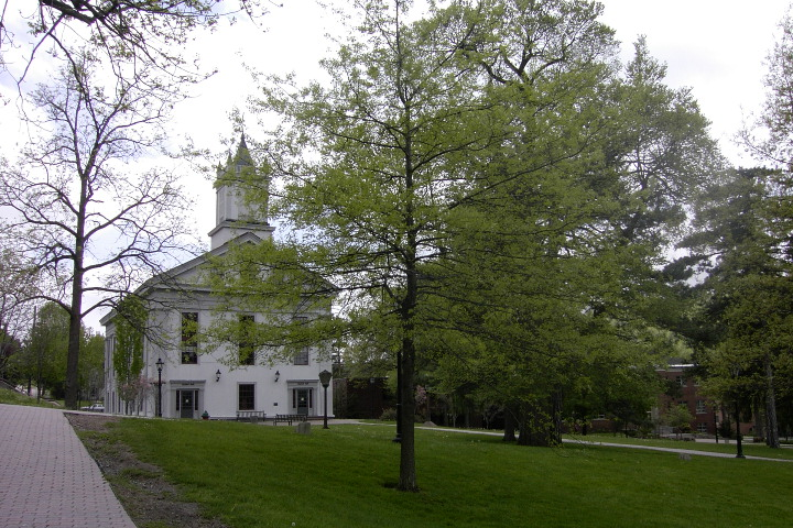 Alumni Hall at Alfred University, May 2004. Photo by Shawn Allan, AU Class of 2002.